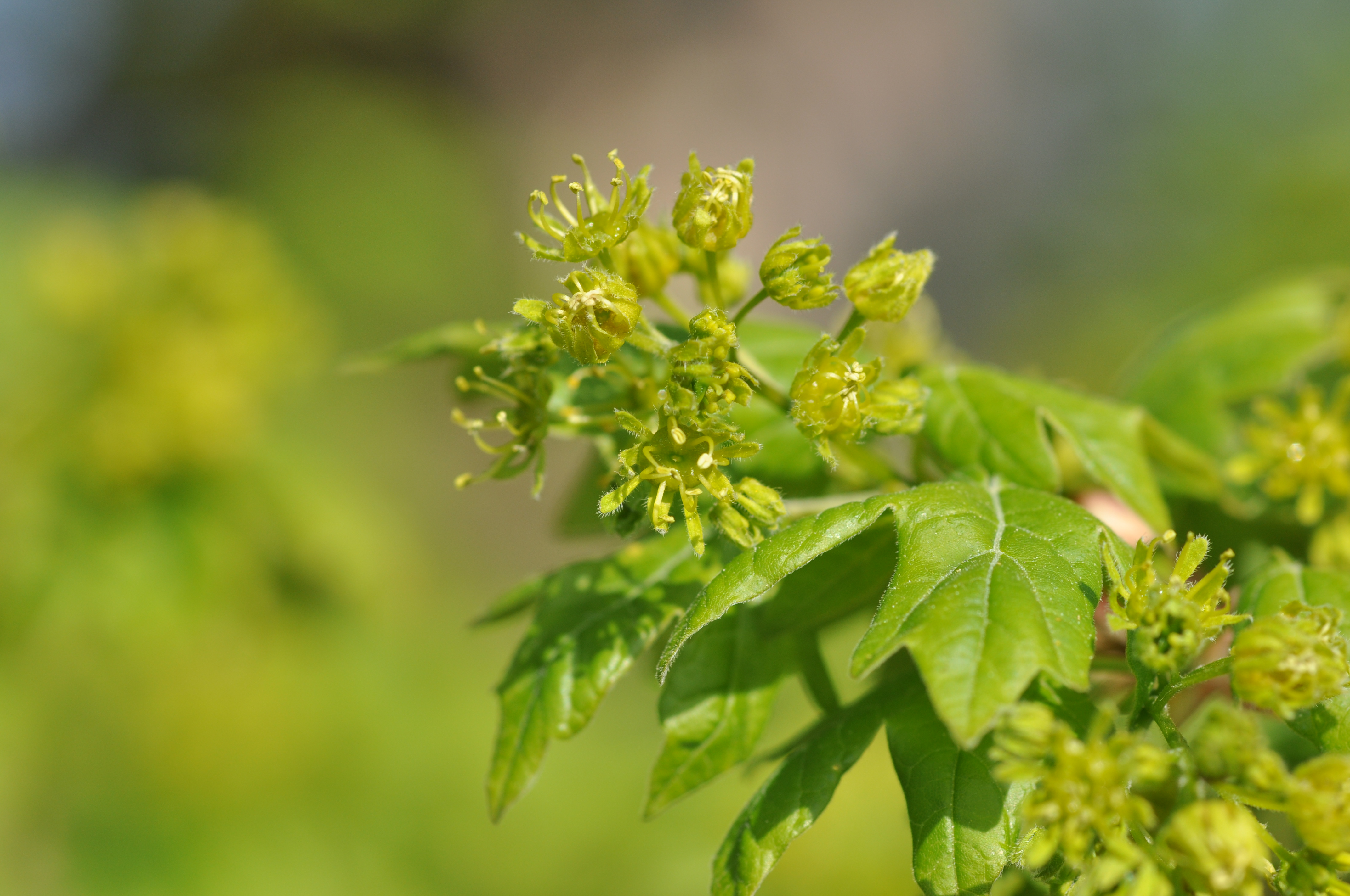 Field maple inflorescence in Kirchwerder, Hamburg.